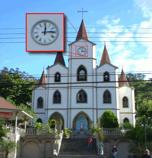 A catholic church has a peculiarity in its roman numeral clock: instead of using "IV" to represent the number "4" (four), it was used "IIII". This church is situated in the little city of Bom Jardim, in the state of Rio de Janeiro, Brazil.